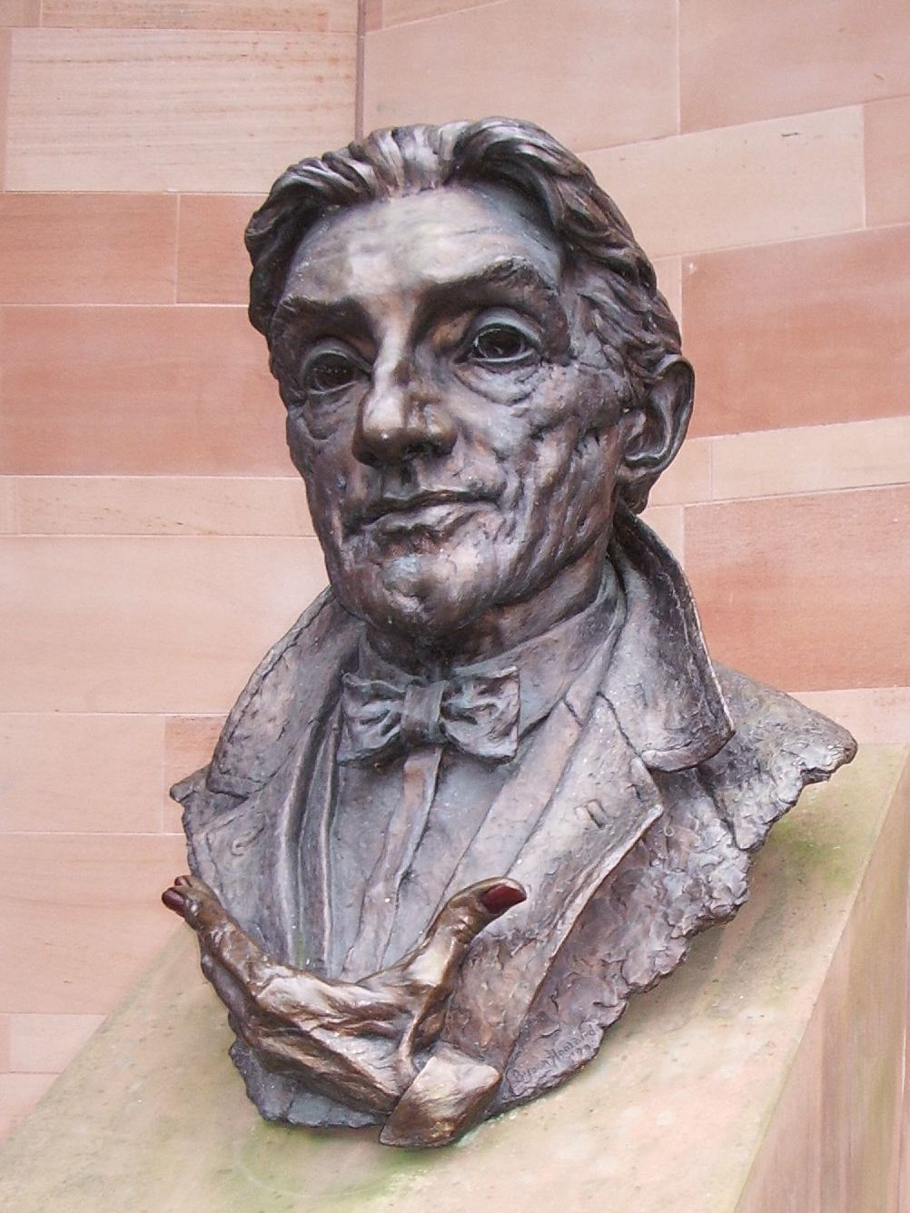 This bust of Sir John Barbirolli by Byron Howard stands outside the Bridgewater Hall in Manchester.